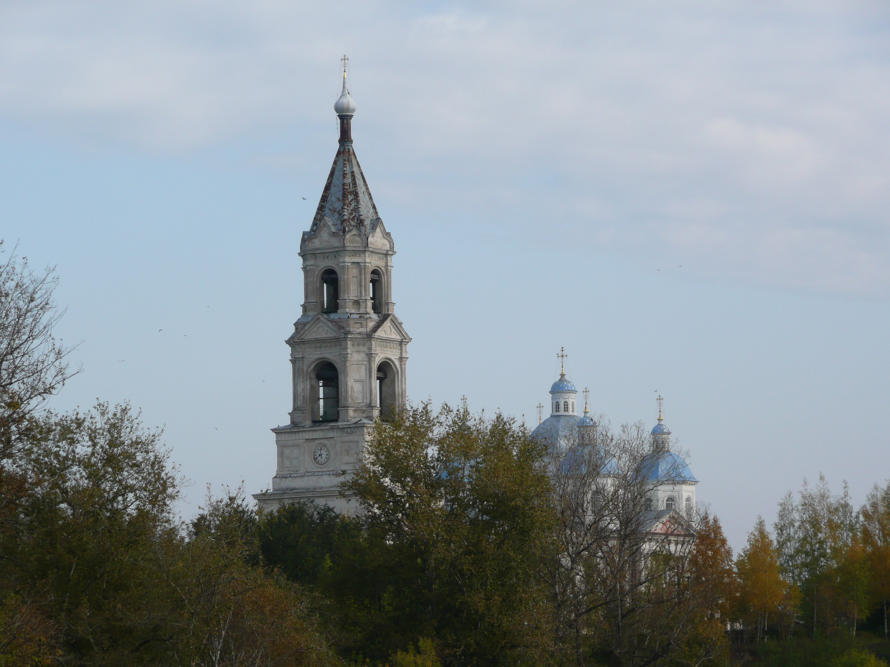 Kashin Cathedral, Russia